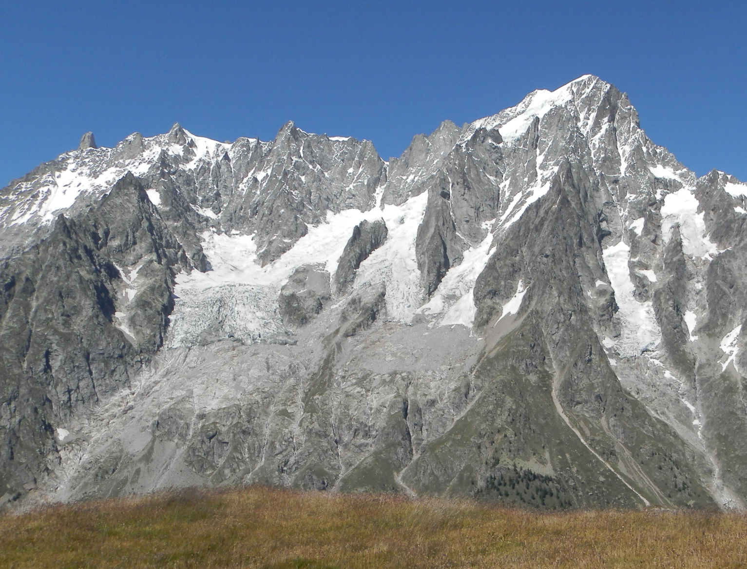 Grandes Jorasses south slope in August 2014